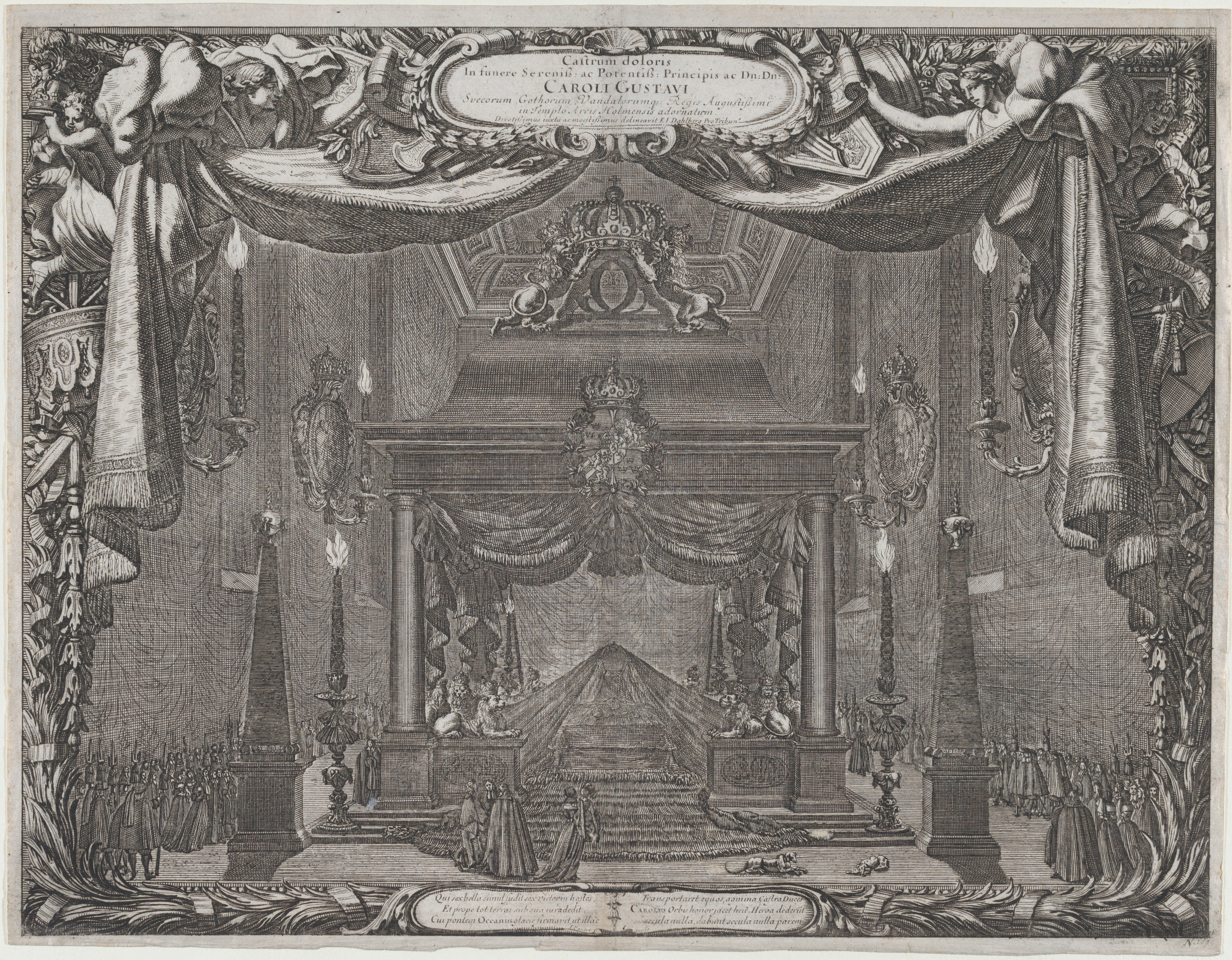 Print collection ornament & architecture; Prints